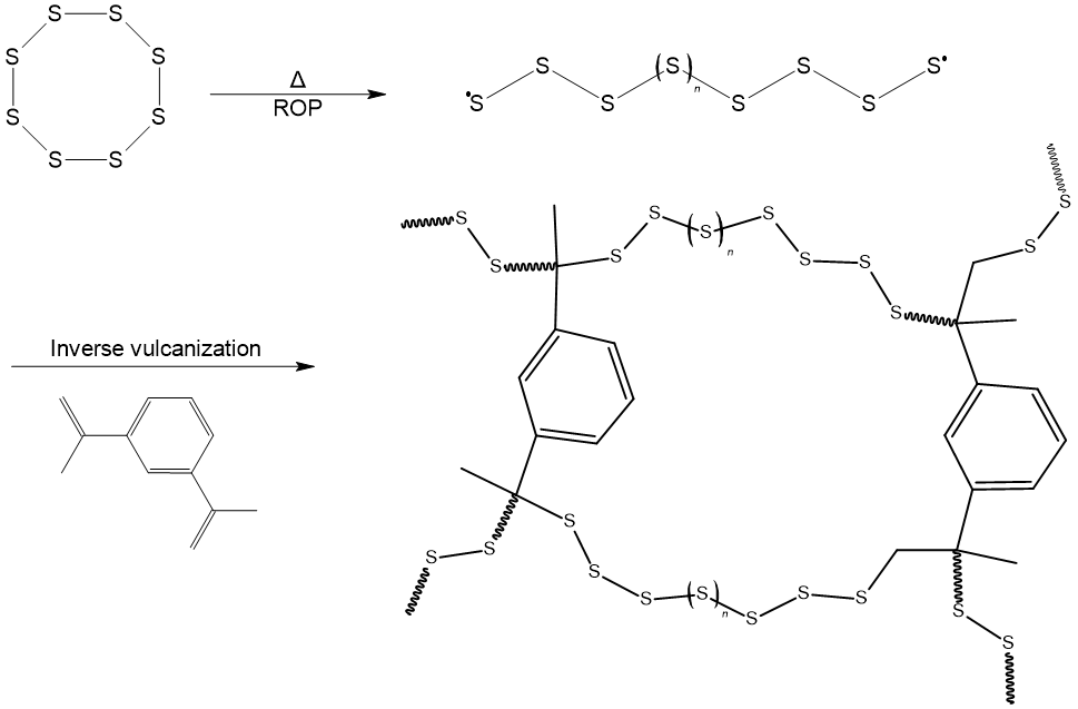 Molecular representation of the inverse vulcanization process of sulfur through 1,3-diisopropenylbenzene.